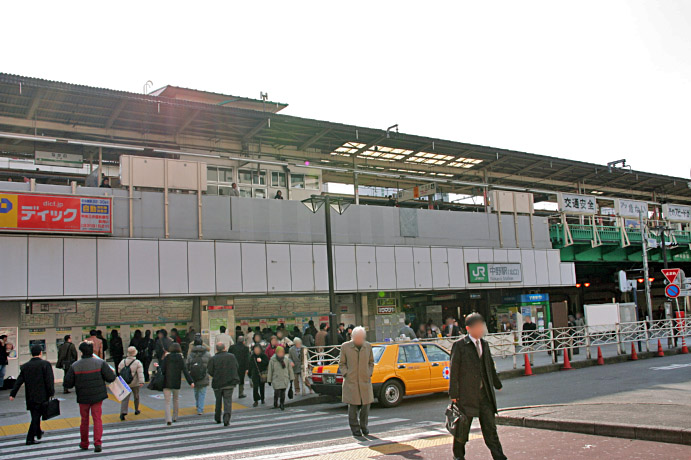 Nakano Station North Entrance(Nakano Station (Tokyo)), Nakano Ward, Tokyo Metropolitan Area, Japan.